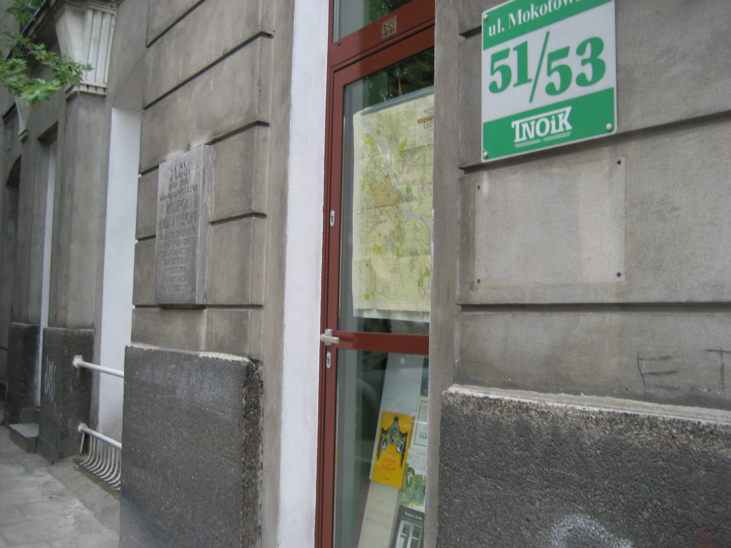 Ulica Mokotowska 51/53, Warsaw--site of activities, in 1927-33, of Professor Karol Adamiecki, one of the founders of Scientific Management.